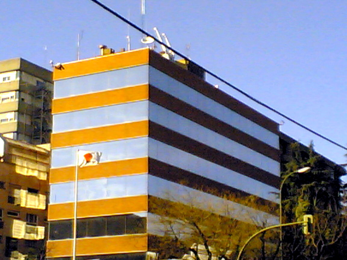 Façade of the Japanese Embassy in Madrid (Spain).